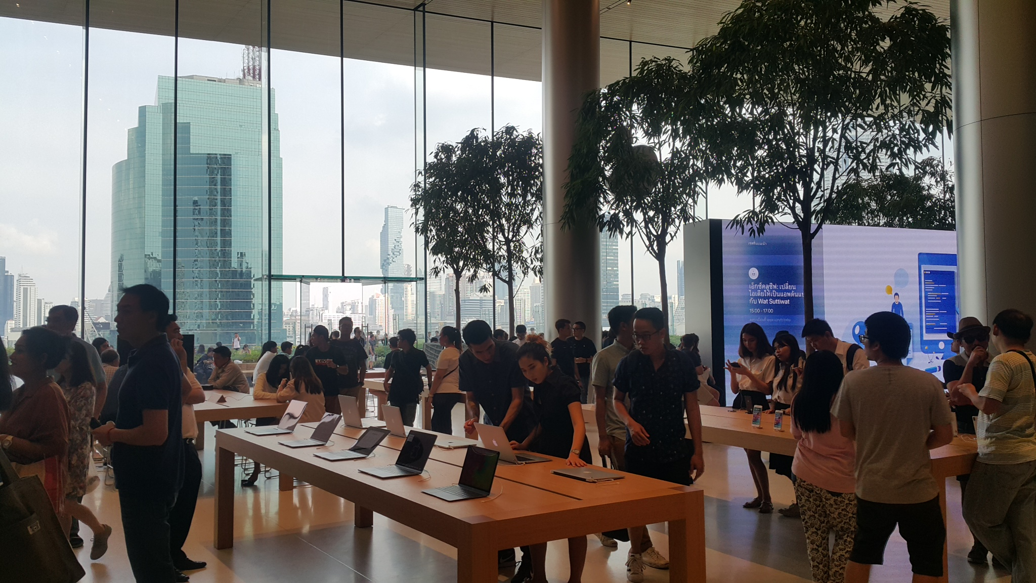 The first official Apple Store in ICONSIAM, Bangkok